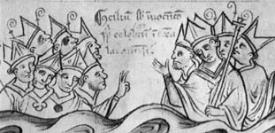 Fourth Council of the Lateran